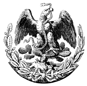 Interpretation of Mexican Eagle 1887